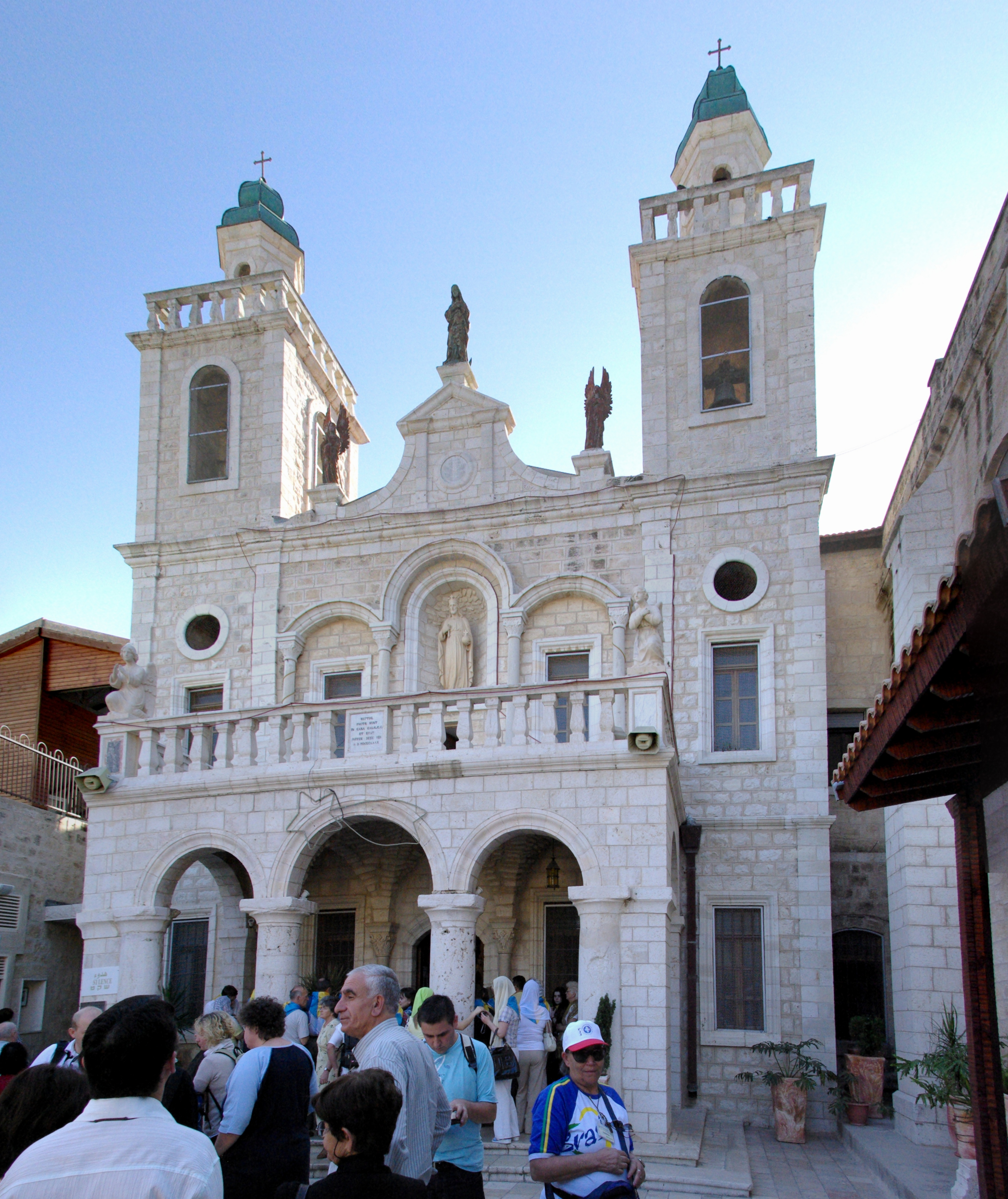 Weddingchurch in Kafr Kanna